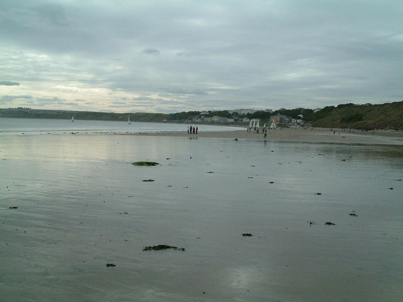 The beach at Filey, Yorkshire, England in October at low water.